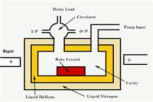 MASER